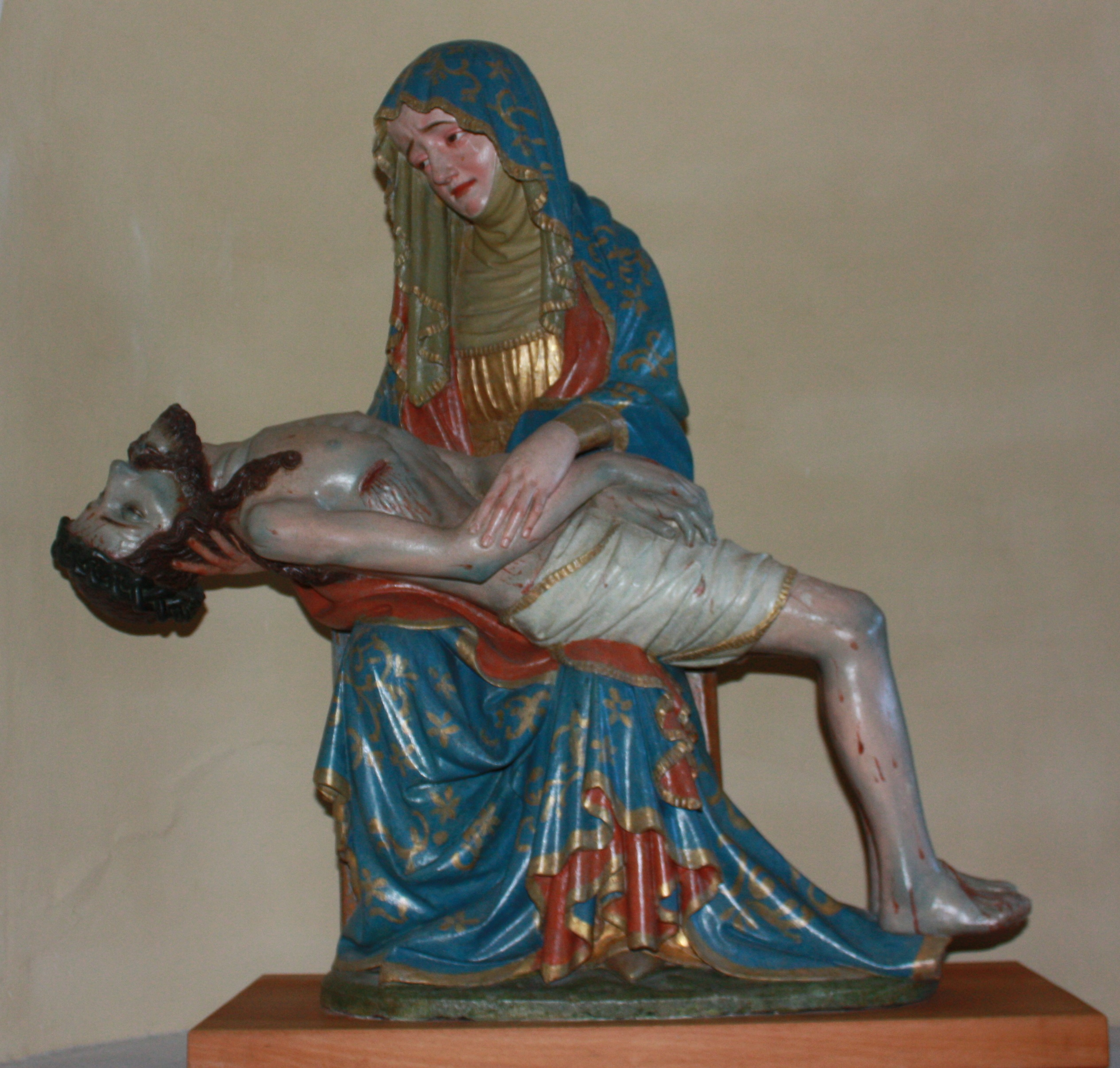 Parish church Saint Niklaus - Pieta Locality:Straßburg Community:Straßburg